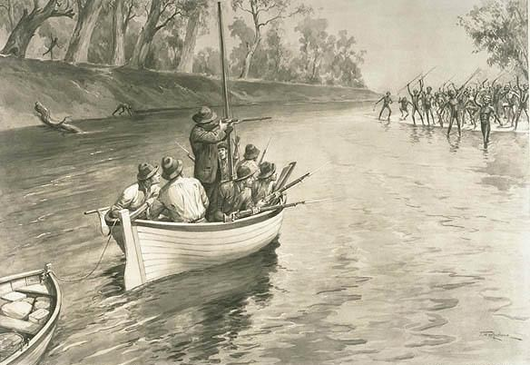 National Library of Australia picture nla.pic-an9025855-1. 'Sturt's party threatened by blacks at the junction of the Murray and Darling, 1830'.